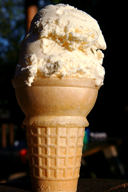 Vanilla ice cream cone I bought at Camp Manitoulin for a $1 donation. It was sort of icey. For Macro Mondays Drips Drops Splashes.